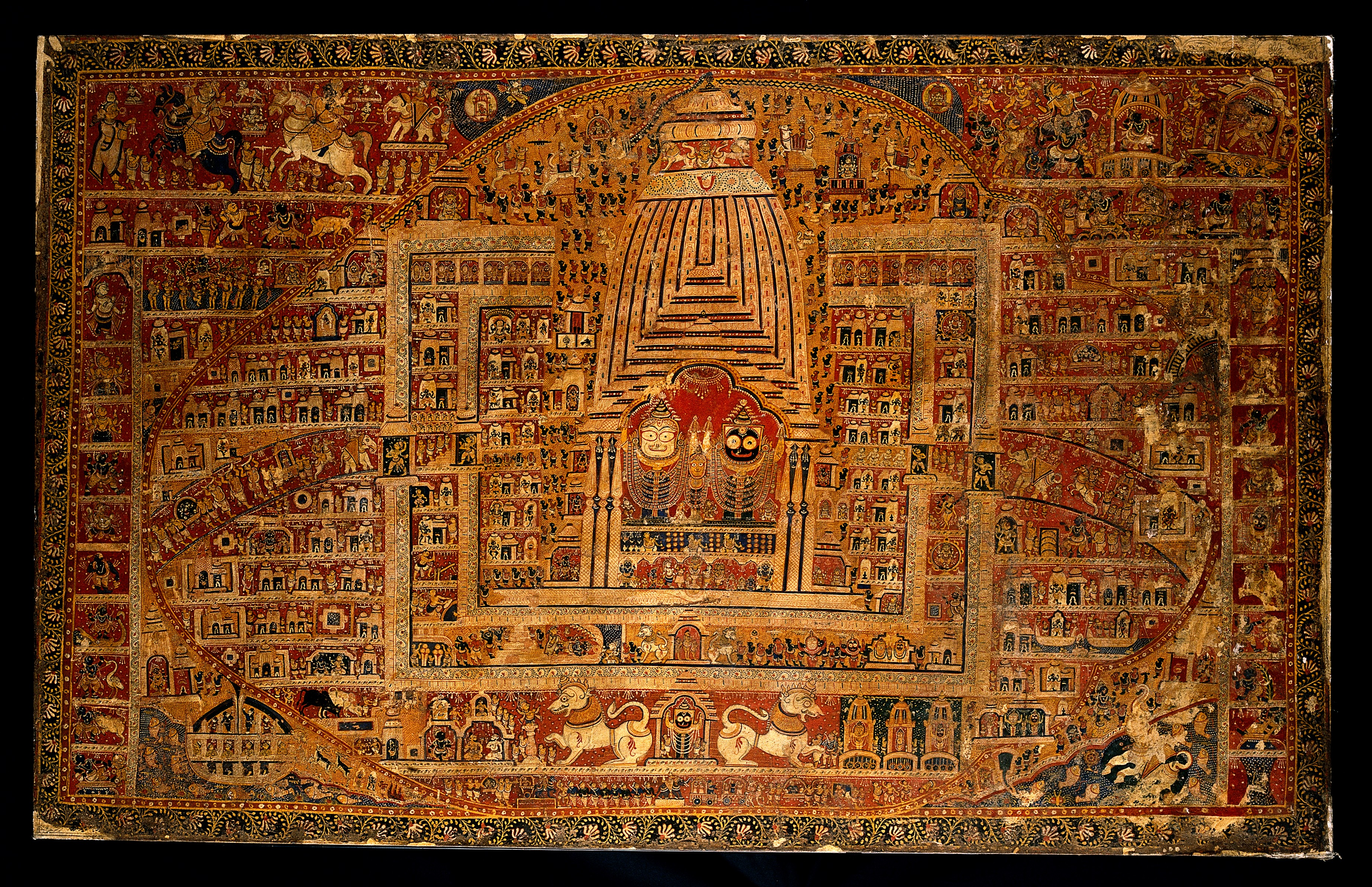 Balarama, Subhadra and Jagannath in the temple at Puri, with many human and sacred figures, buildings and animals. Oil painting by a painter of Puri, Orissa, ca. 1880/1910. Iconographic Collections Keywords: jagannath; subhadra; Mythology; SACRED SUBJECTS; balarama